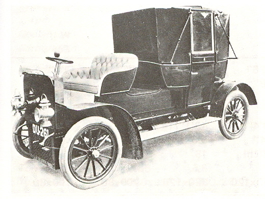 1905 Standard 16/20 hp Landau